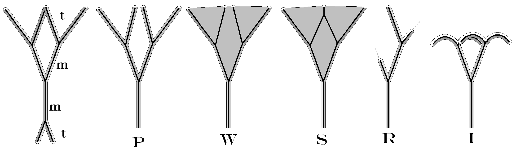 Telome theory primary processes Zimmerman